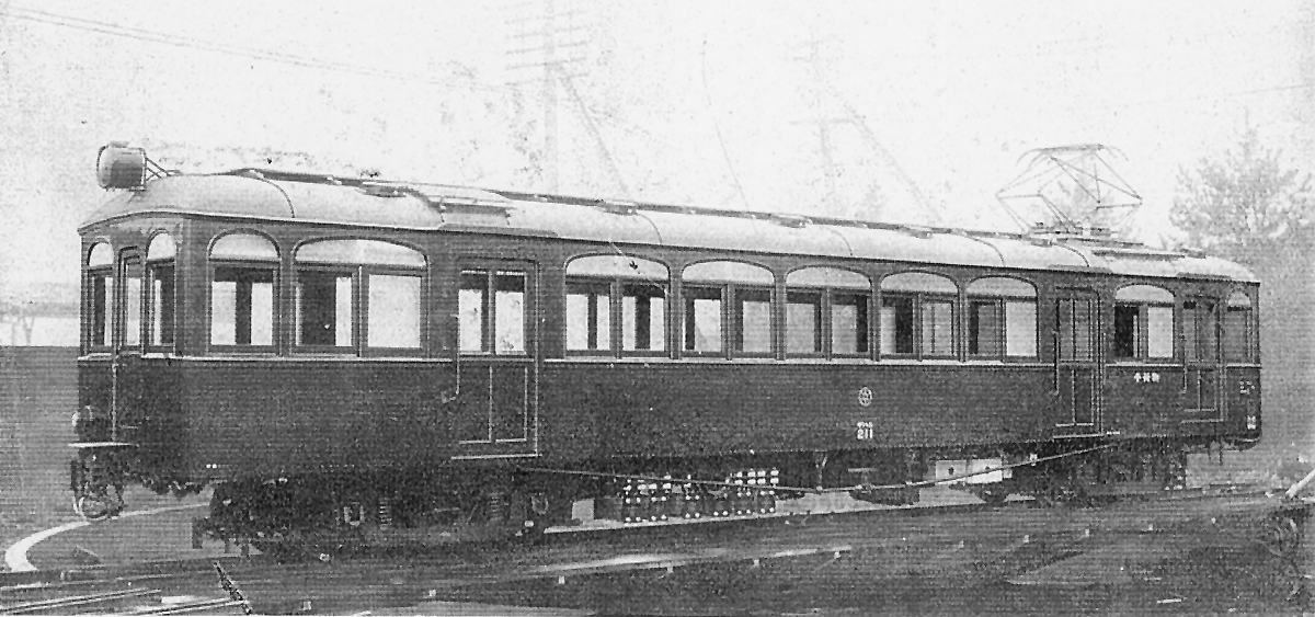 Ise Electric Railway Type Mohani 211 EMU No.211